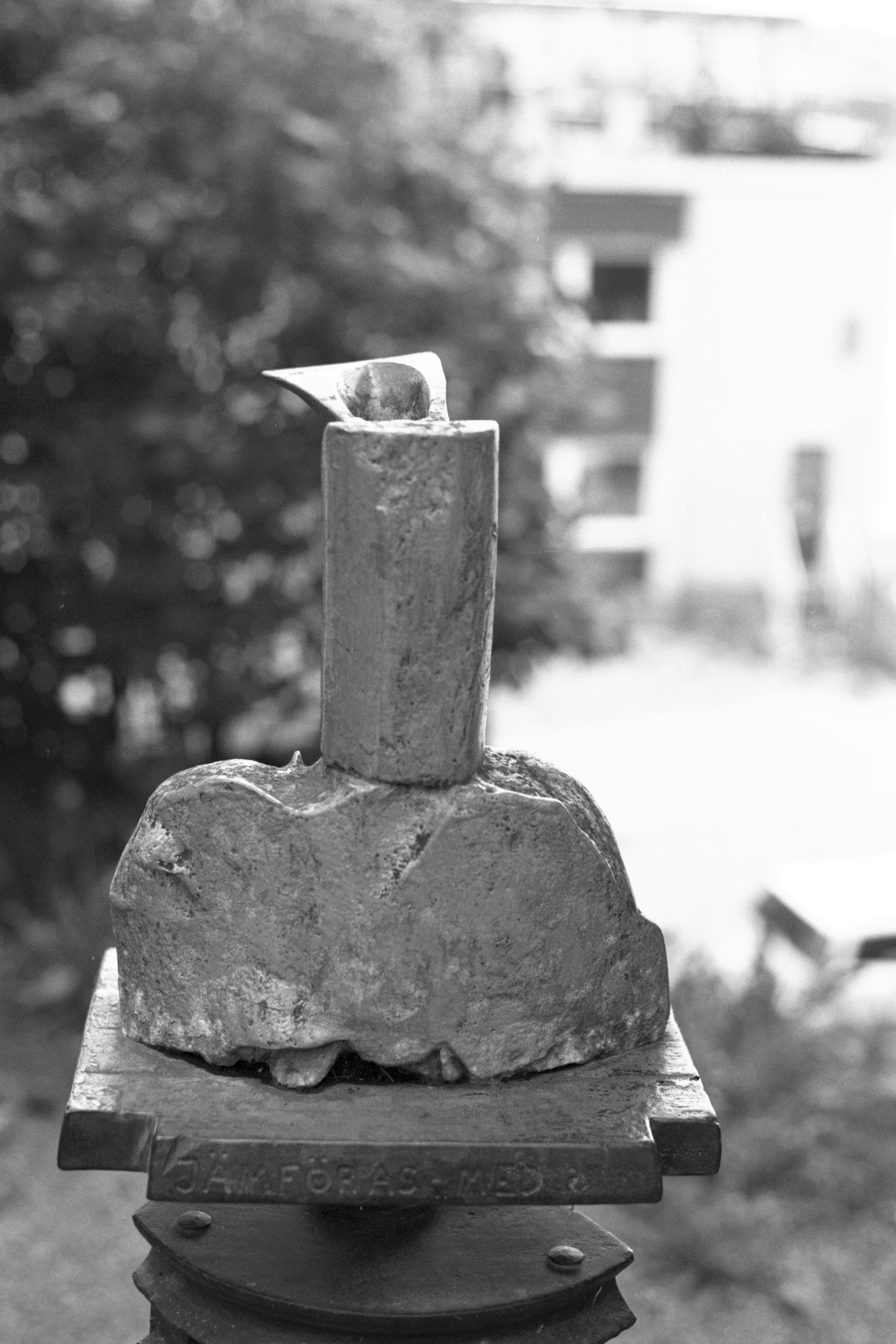 Skitstöveln (Bastard). By Swedish artist Roland Haeberlein. Material: aluminium. On a modelling stand on the slope below the extension of Fiskargatan east of Mosebacke Terrace is a yellow boot in aluminium, a representation of the title of the piece – skitstövel, a Swedish term of derision along the lines of “asshole” or “bastard”. The inscription reads: “This year’s stupidest idea deserves comparison with last year’s asshole